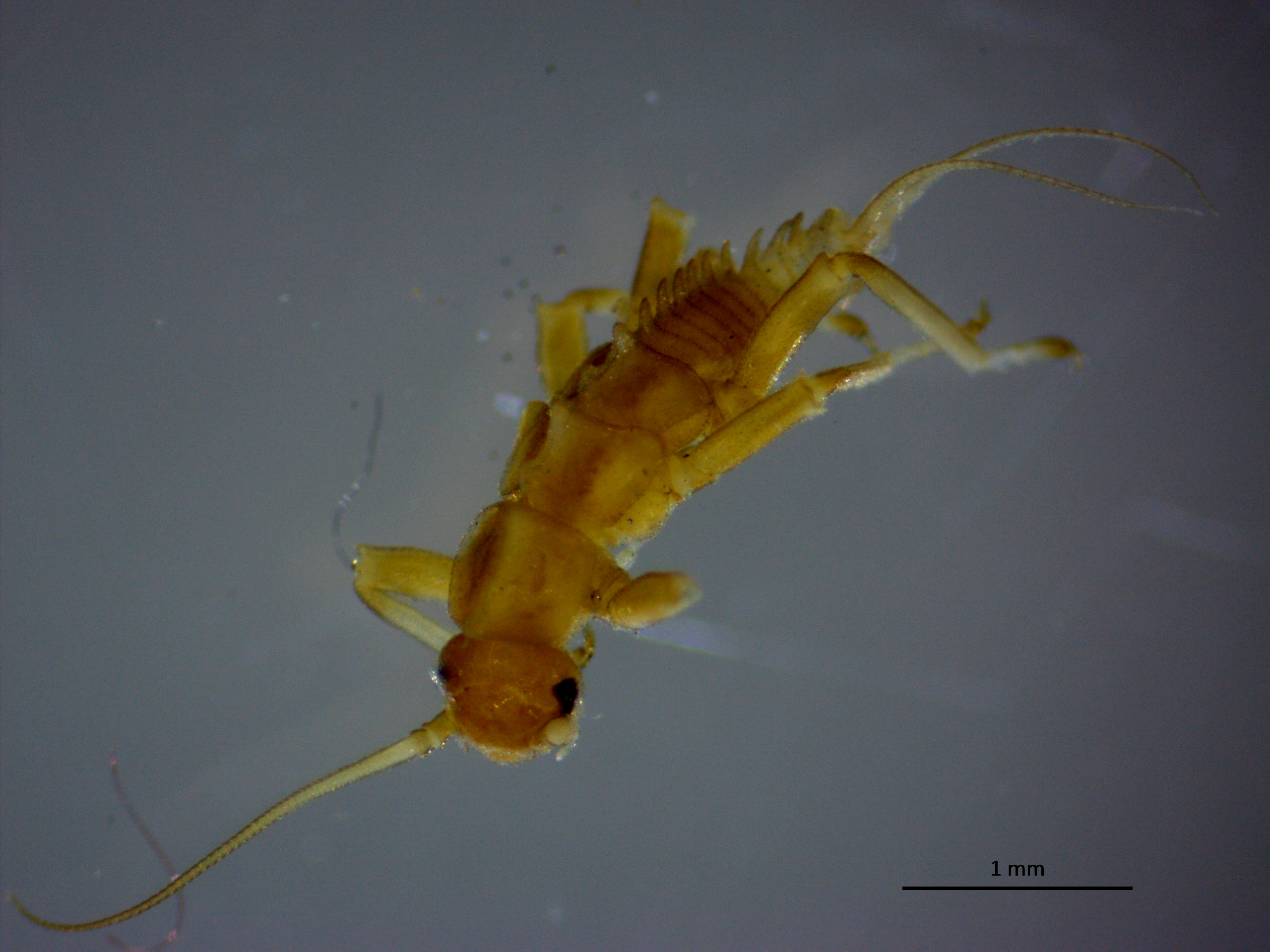 Taeniopteryx hubaulti larva from Toplodolska river (SE Serbia). Српски (ћирилица): Ларва врсте Taeniopteryx hubaulti из Топлодолске реке (општина Сурдулица, ЈИ Србија).